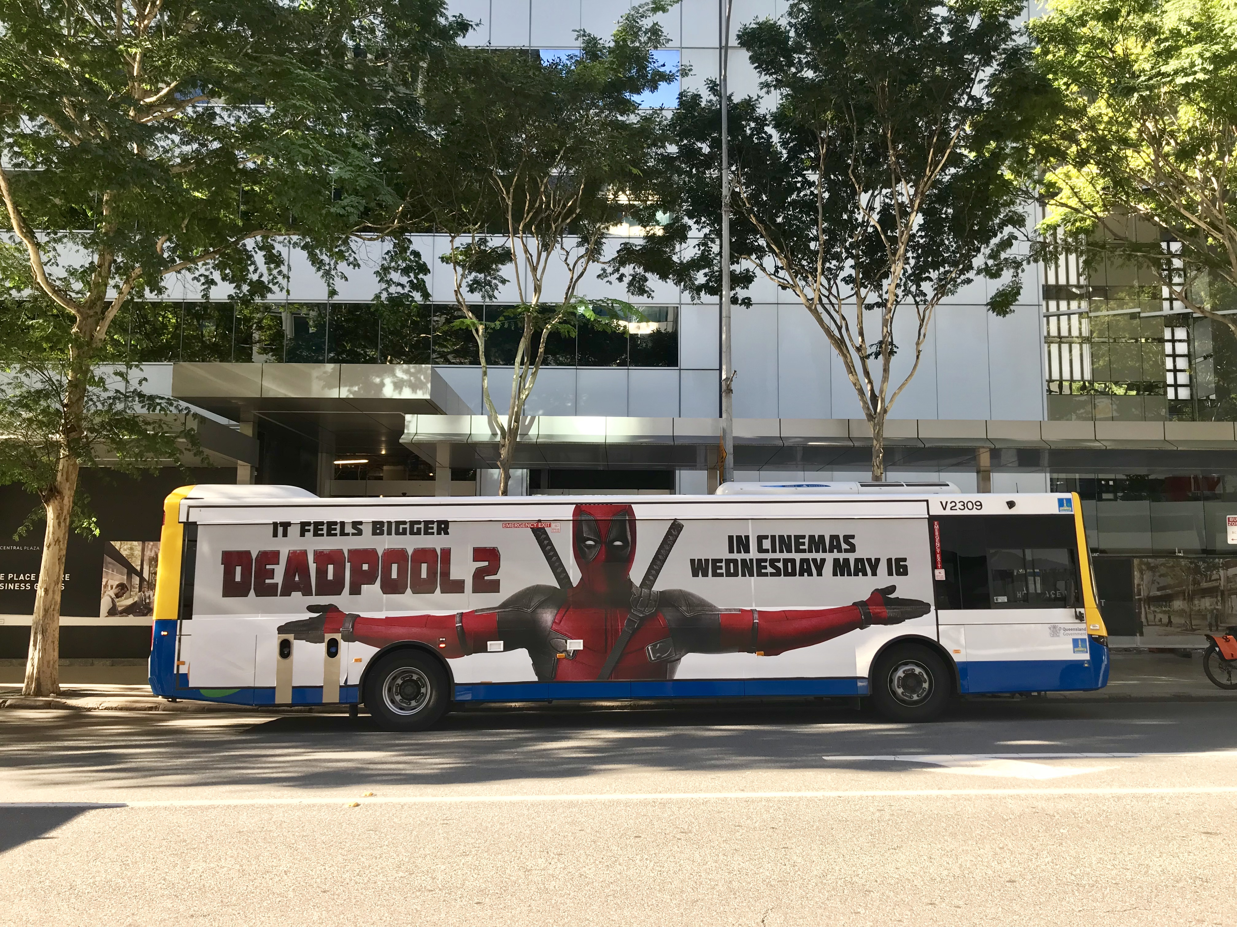 Movie advertisement on bus in Brisbane, Australia